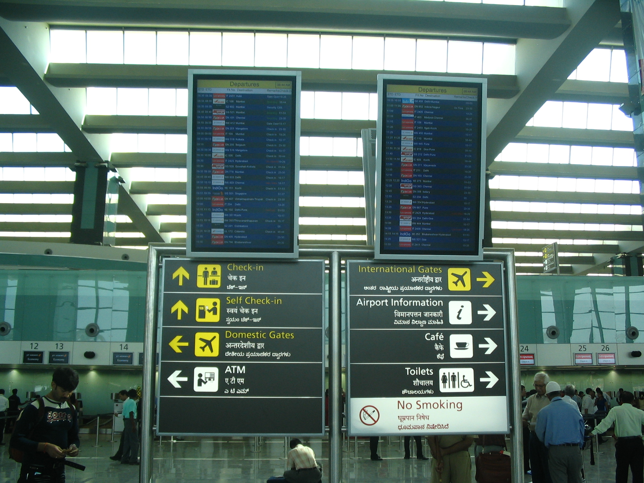 Signs and departure information screen at Bengaluru International Airport.